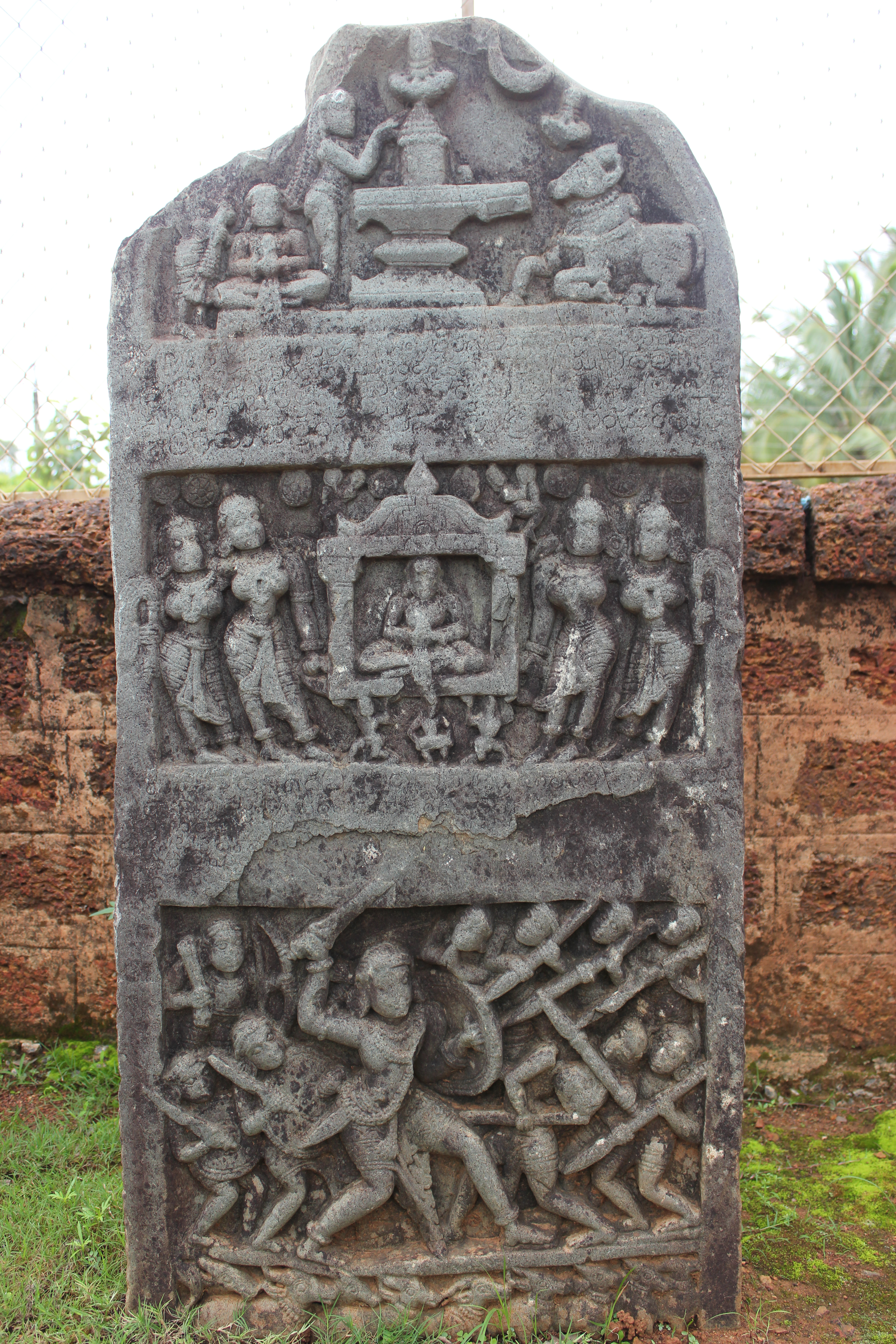 This photograph of a herostone (virgal) containing old Kannada inscription was taken by me at the Kaitabhesvara (also spelt Kaitabheshvara or Kaitabheshwara) temple in Kubatur (also spelt Kubattur or called Kotipura) in the Shivamogga district (Shimoga), Karnataka state, India. The temple was built around 1100 AD during the reign of Hoysala King Vinayaditya, a feudatory of the Western Chalukya emperor Vikramaditya VI. The architectural style is very Chalukyan. The hero stone has a old Kannada inscription dated 1235 A.D. and is from the rule of Yadava King Singhana Deva.Souce:Epigraphia Carnatica, Inscriptions in Shimoga, Mysore Archaeological Survey, Volume 8, Part 2, by Benjamin Lewis Rice, Mysore Government Central Press, 1904. chapter:List of Inscriptions by Chronological Order, pg.5; Translations, Sorab Taluq, pg. 44; Text of Inscriptions in Roman Characters, pg.90